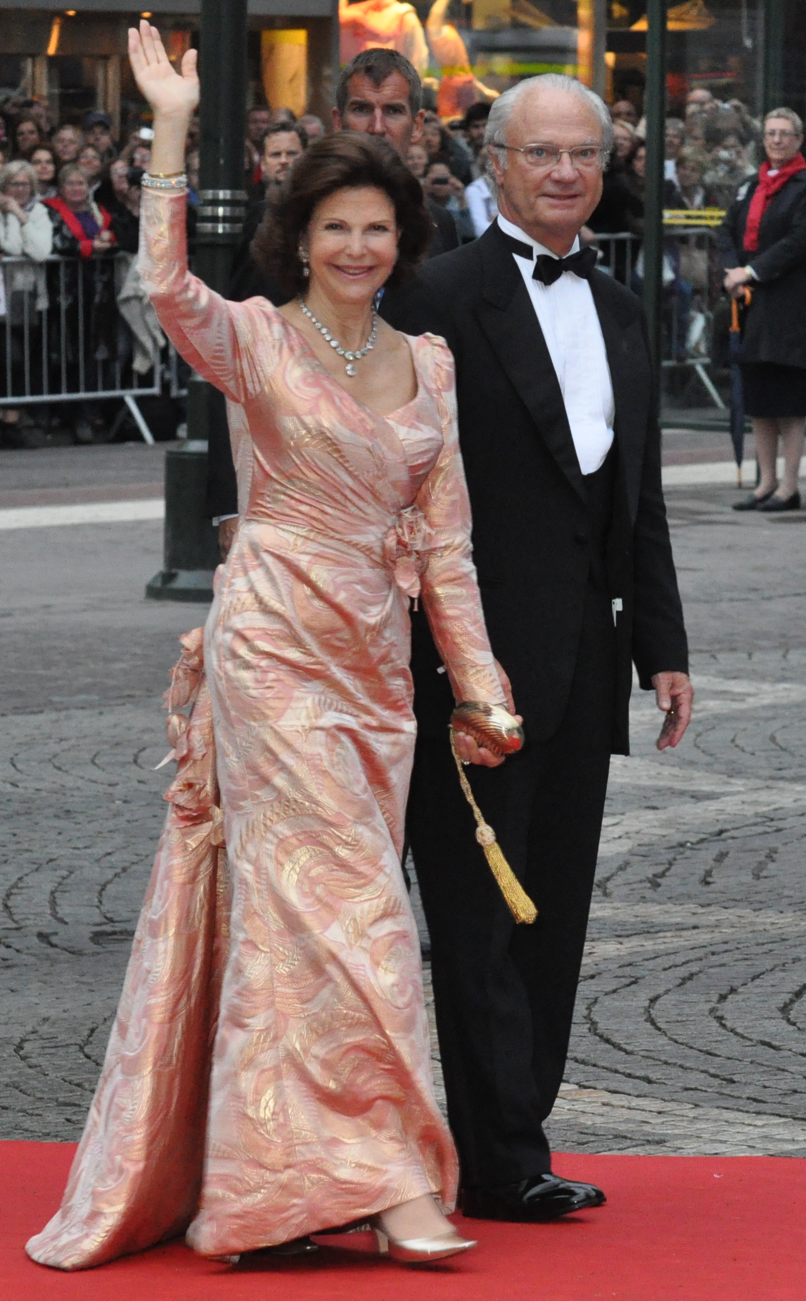 Wedding of Victoria, Crown Princess of Sweden, and Daniel Westling; Arrival of members for the Gouvernment and Swedish and foreign guests of hounour to the Riksdag's Gala Performance at Konserthuset: H.M. Carl XVI Gustaf of Sweden and his wife H.M. Queen Silvia of Sweden